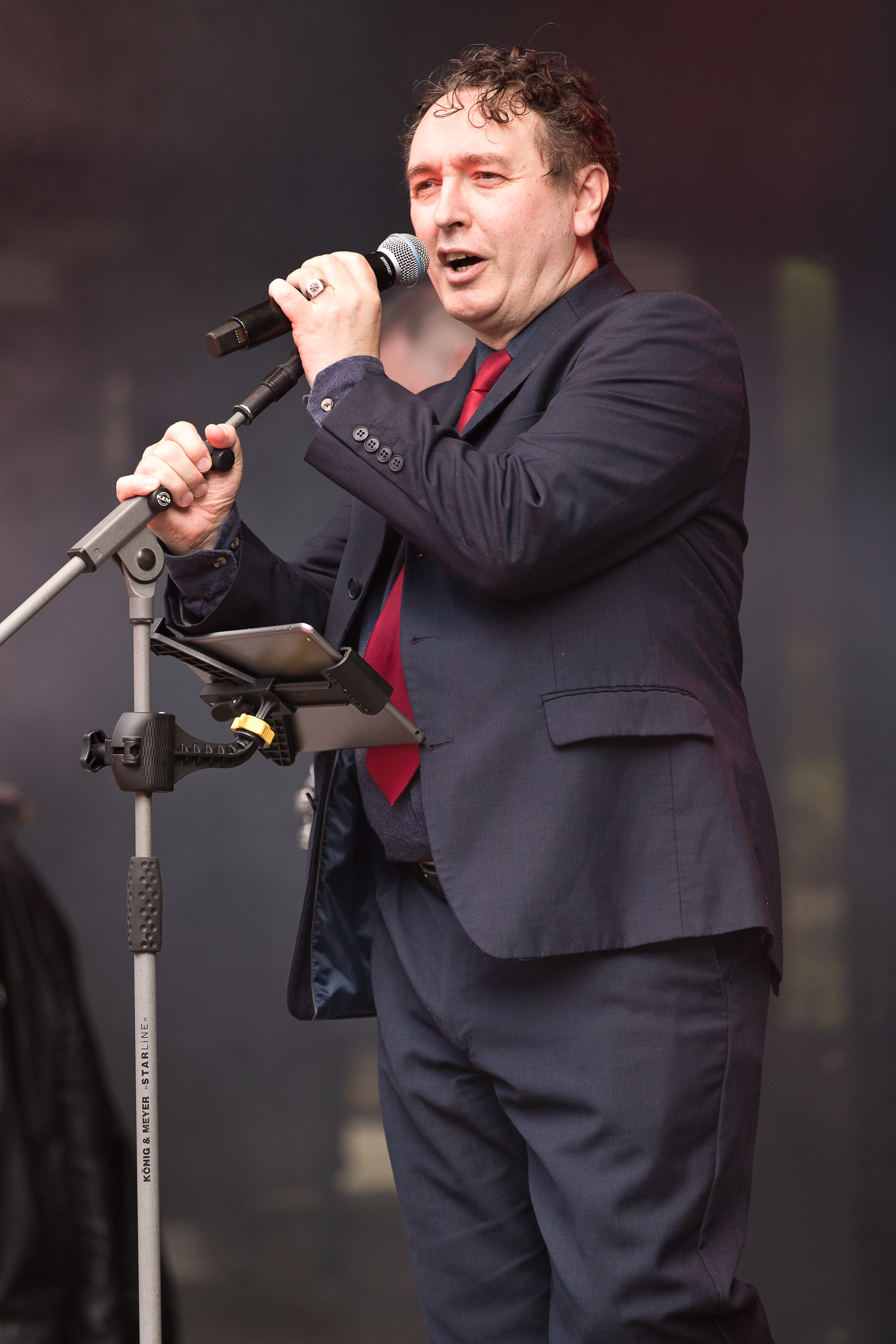 The English wave and electro punk band The Cassandra Complex at the Nocturnal Culture Night 11 2016 in Deutzen/Germany.